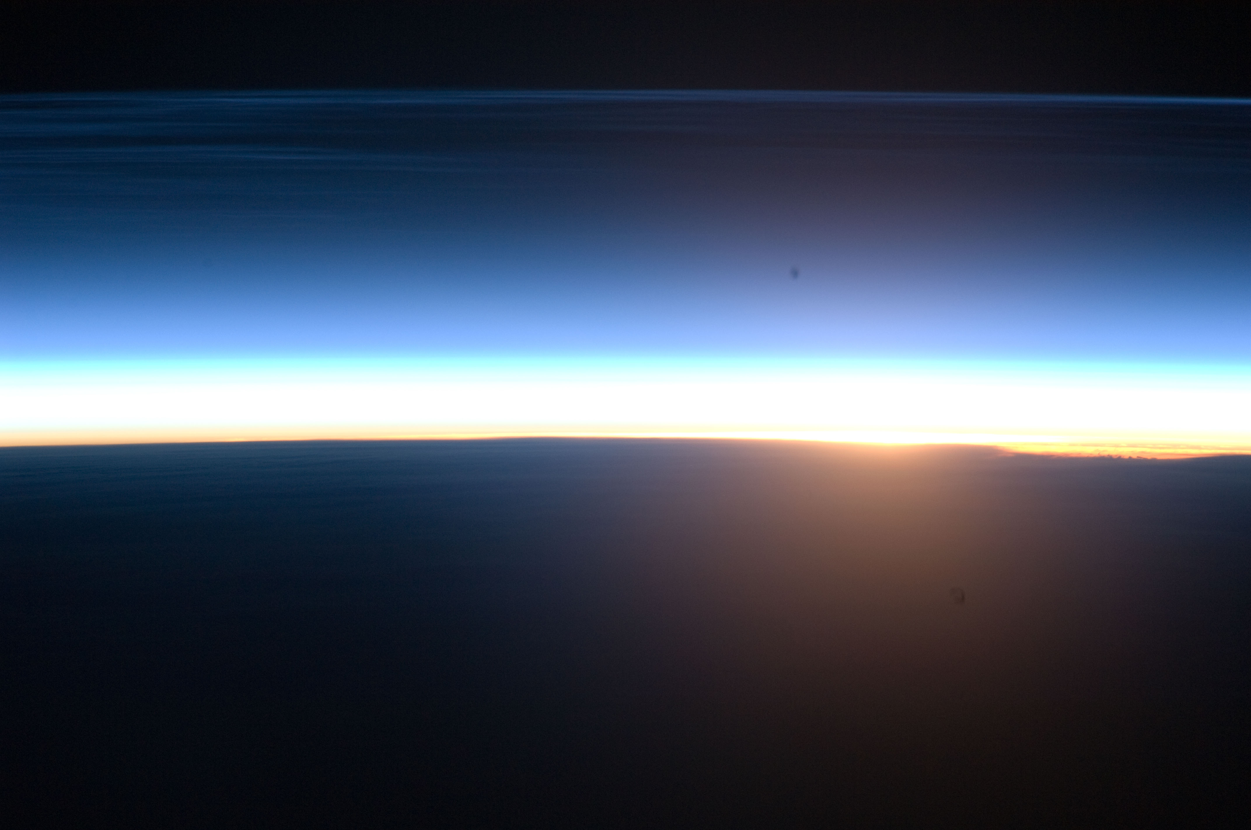 This unusual astronaut photograph shows polar mesospheric clouds illuminated by the rising, rather than setting Sun. Low clouds on the horizon appear yellow and orange, while higher clouds and aerosols (particles like dust and pollution) are illuminated a brilliant white. Polar mesospheric clouds appear as light blue ribbons extending across the top of the image. The ISS was located over the Greek island of Kos in the Aegean Sea (near the south-western coastline of Turkey) when the image was taken at approximately midnight local time. The ISS was tracking north-eastward, nearly parallel to the equator, making it possible to observe an apparent “sunrise” almost due north.